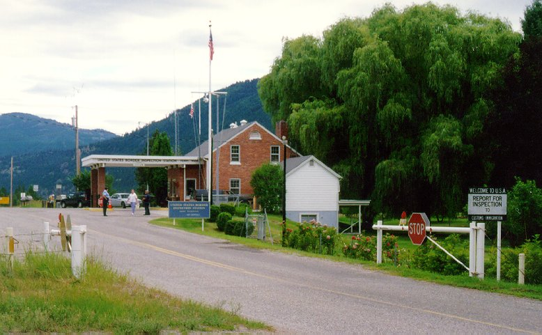 Ferry, Washington (US) Border Station. In the opposite direction is the Midway, BC (Canada) Border Station.